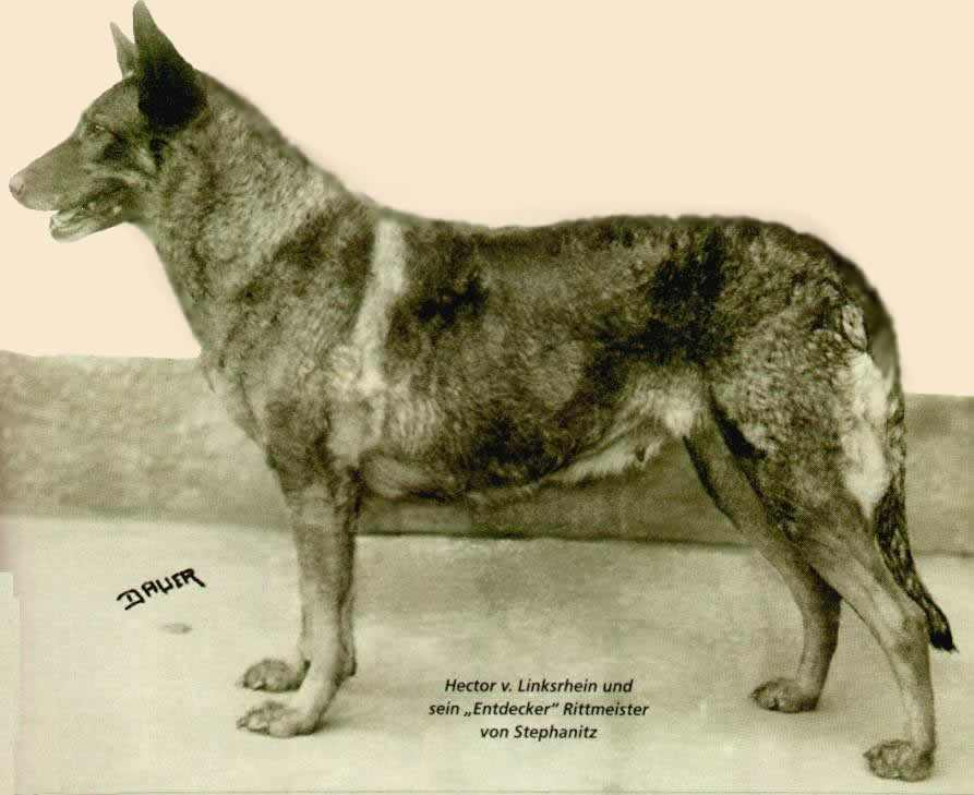 GSD breed photo dated circa 1899